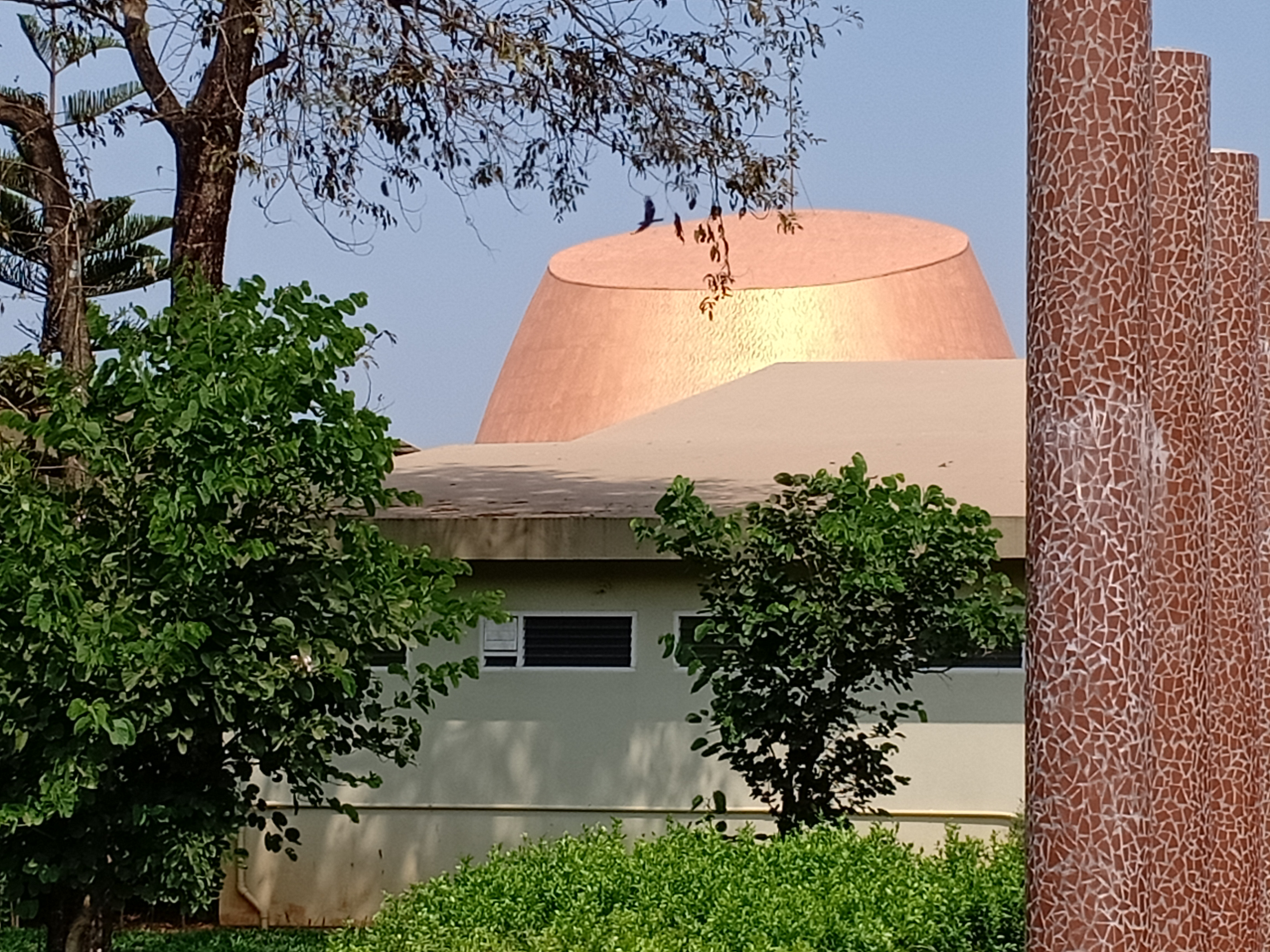 Swami Vivekananda 3D Planetarium (Dome) in Mangalore